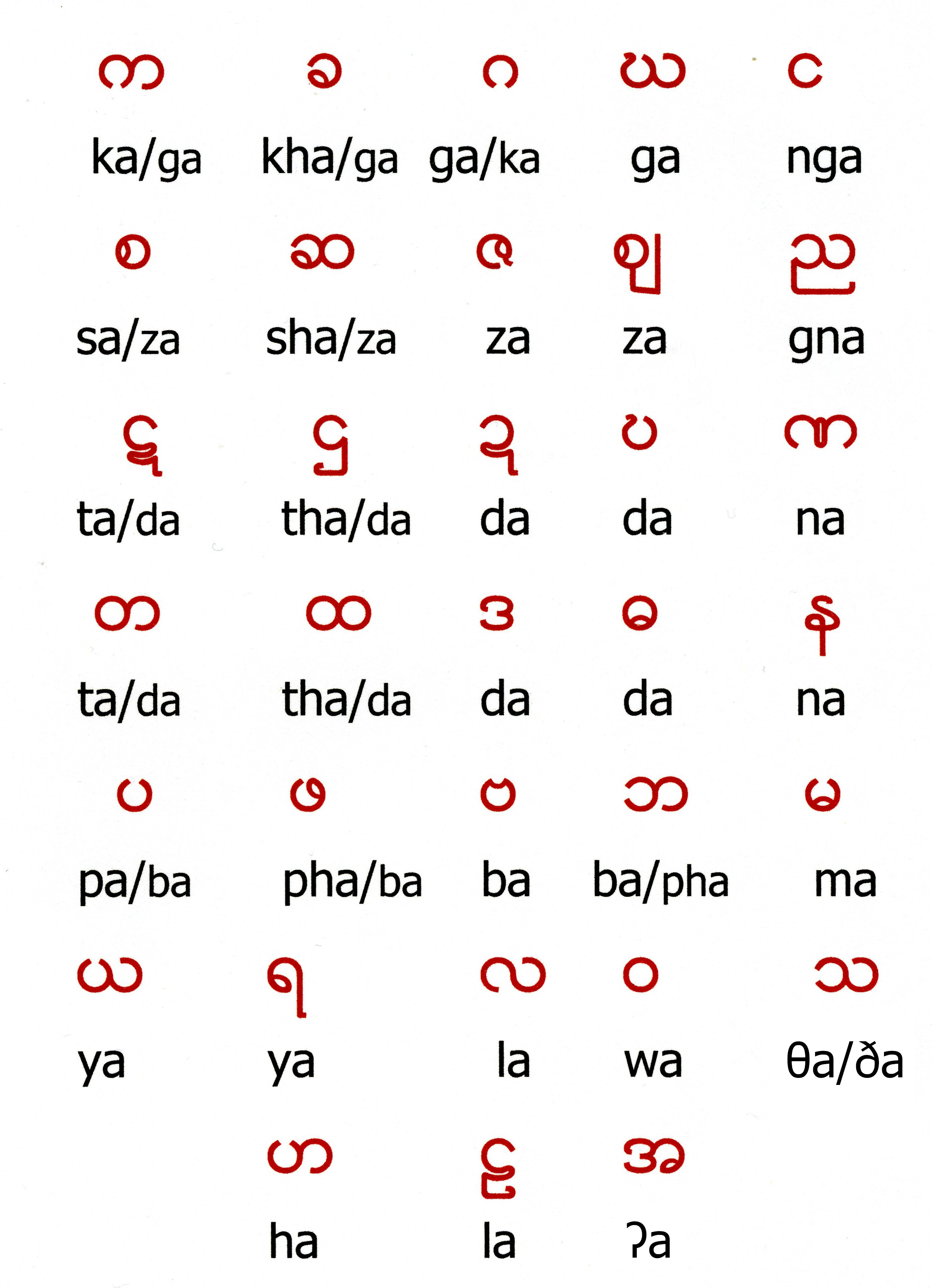 Burmese consonants